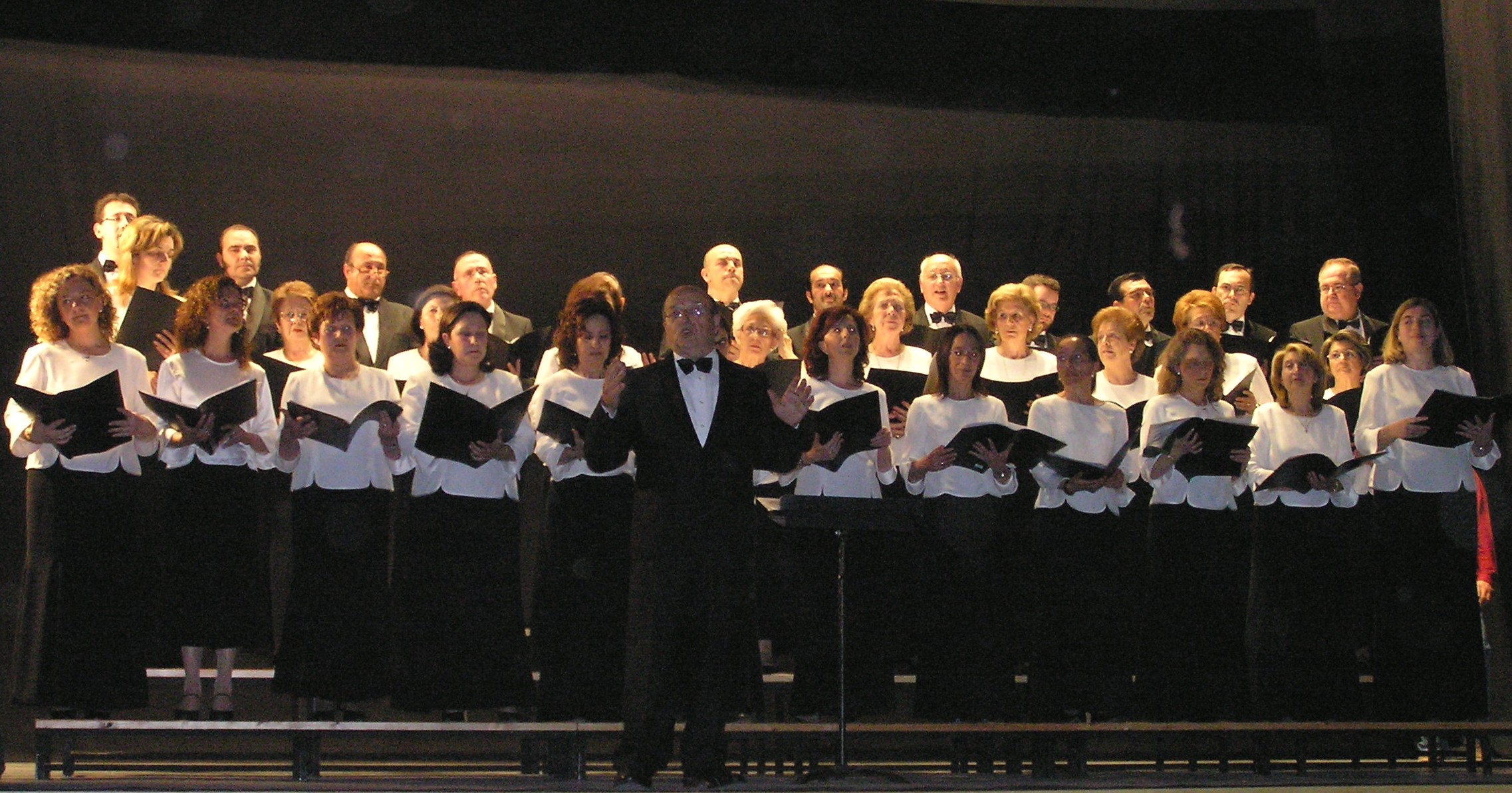 Coral de Beas en cine Regio